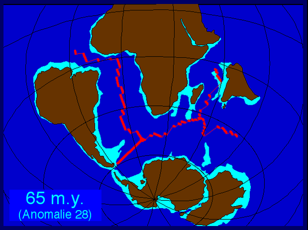 Breakup of Gondwana: position of continents on the Southern hemisphere 65 Million years ago